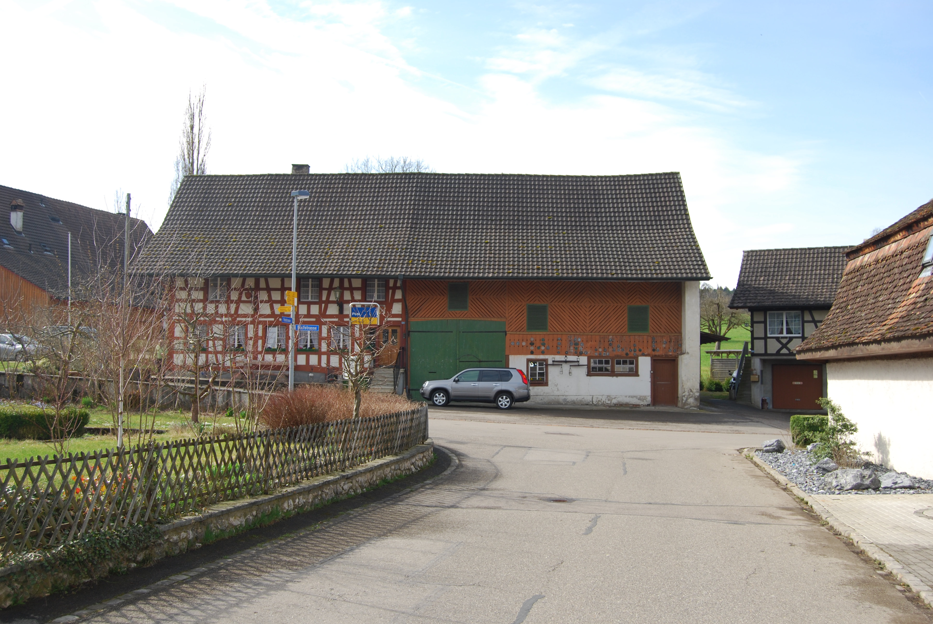 Bus stop Bachs Post, canton of Zürich, SwitzerlandEsperanto: Bushaltejo Bachs Poŝto, Kantono Zuriko, Svislando